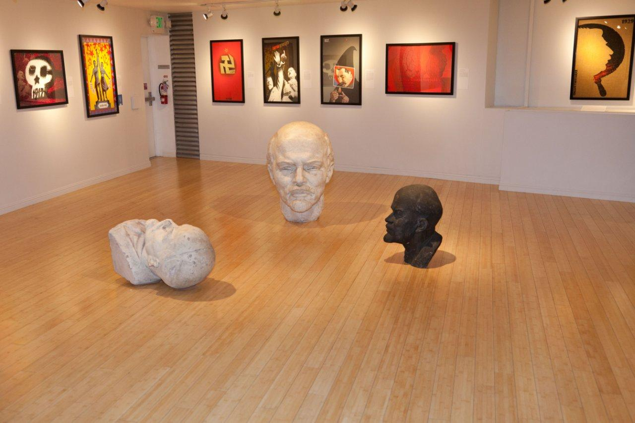 Picture from the exposicion Deconstructing Perestroika.